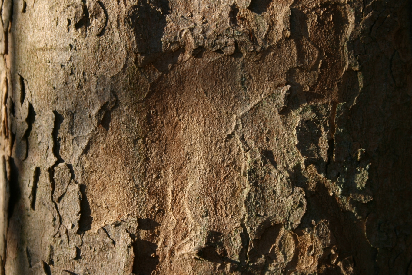 Acer pseudoplatanus: Bark (old tree)